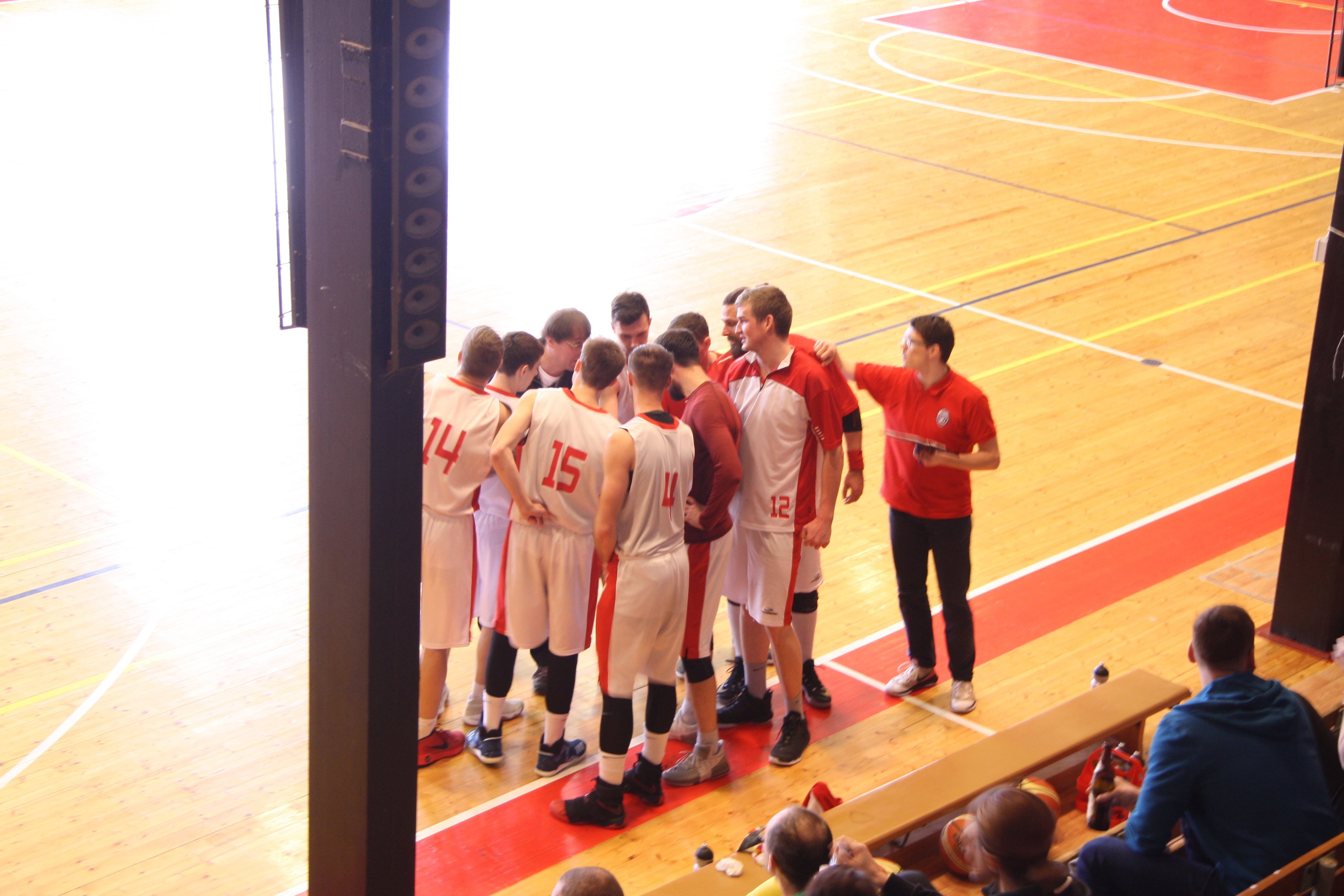 Meeting of TJ Třebíč players in Hala Leopolda Pokorného at TJ Tesla Brno vs. TJ Třebíč match in Třebíč, Třebíč District.